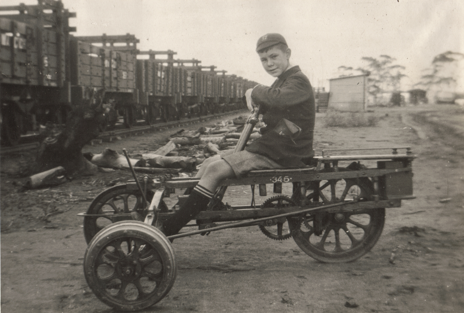 A Sheffield No. 1 Velocipede Car on the Kurrawang Woodline in Western Australia. H.N. Fretwell, the child in the photograph, wrote the following caption: These woodlines used to supply timber to the mines and Kalgoorlie Power House. The lines were moved about to follow the salmon gum forests. The rails were leased from the W.A. Govt. Railways by the Timber Co. and once a year this trolley had to be run all over the line and spurs to measure the distance. H.N. Fretwell on Trolley. Timber cutters were nearly all Yugo-Slavs.In his 2006 book Australian Railwayman: From Cadet Engineer to Railways Commissioner, Dr Ron Fitch wrote:For about 40 years, the WA Goldfields Firewood Company operated a small but efficient 1067 mm narrow gauge railway, commonly known as the Kurrawang Wood Line. Starting from Kamballie at the southem end of the Golden Mile, the railway cut across to Kurrawang on the WAGR main line 13 kilometres west of Kalgoorlie. It then extended northwards from Kurrawang, shifting the line as the timber cut out. Finally, it swung south, again crossing the main line, this time at Calooli, 14 kilometres west of Coolgardie. From this point, the line stretched as far as 130 kilometres to the south and south-west. ... Although the company had its own locomotive and rolIing stock, at times WAGR vehicles travelled over the line. In order to assess royalty payments, the Railway Department would undertake periodical measurement of the lengths of the main and spur lines. This would be carried out using a pulling tricycle - colloquially known as an Armstrong - fitted with a revolution counter, the number of revolutions being converted into distance. In January 1932, I made one such measurement, at which time the longest spur had reached a point only a few kilometres west of Pioneer, a lonely siding on the Coolgardie-Esperance railway just 43 kilometres short of Norseman.